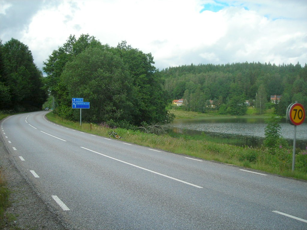 Road 173 at Rådanefors in Sweden